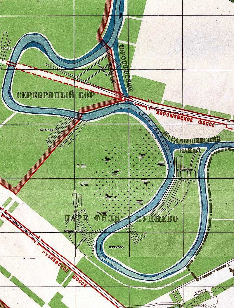 Plans for two shortcuts on the Moscow River: Khoroshevskoye and Karamyshevskoye